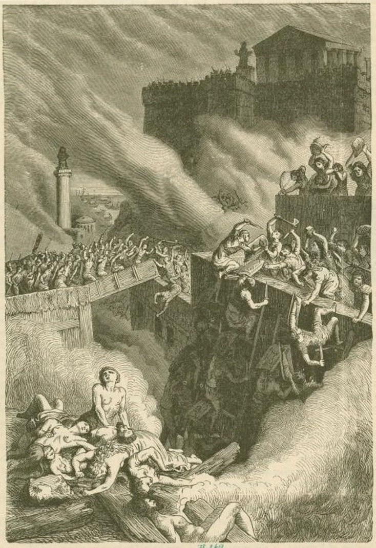 Final assault on Cartage. Third Punic War. 146 BC. Imaginary representation in 1885.